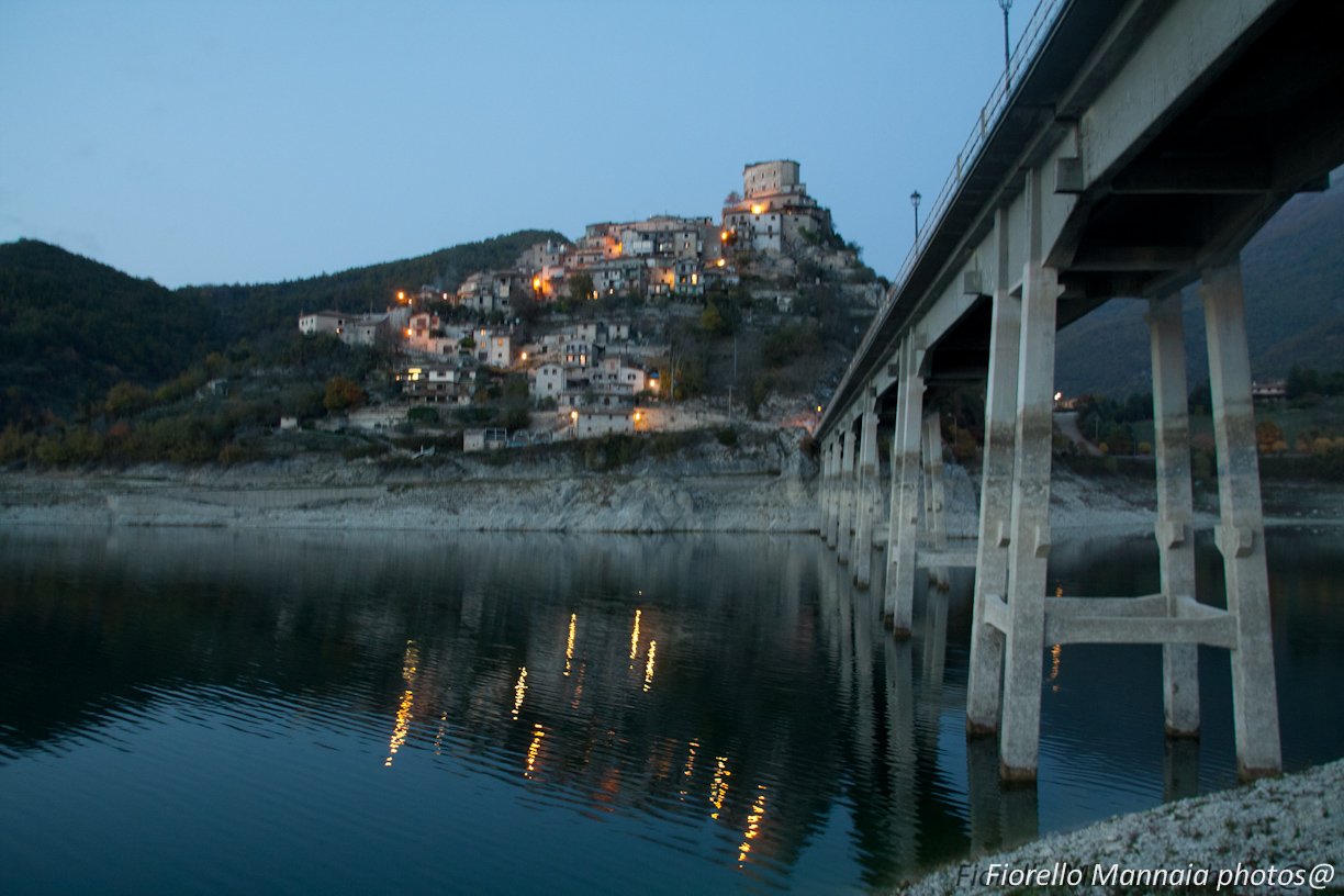 Castel di Tora, on the shore of Turano lake - province of Rieti, Lazio, Italy